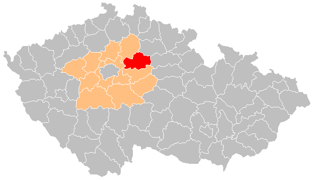 Nymburk District within Central Bohemian Region. Current borders of districts since January 1, 2007.